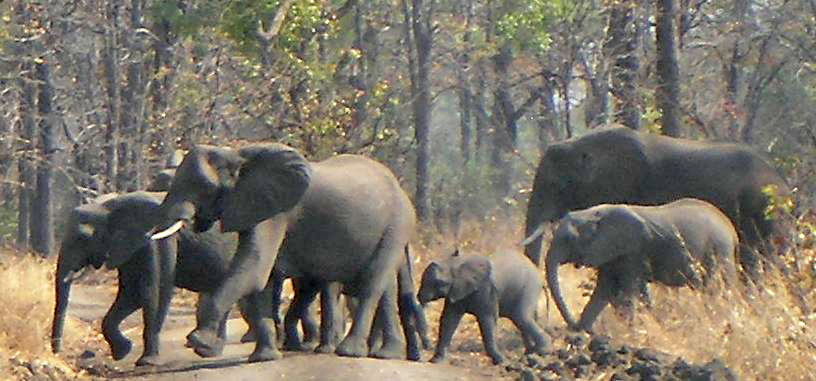 Elephant herd crossing a road in Liwonde National Park, Malawi, shortly after 8 AM local time. Low resolution as cropped from a larger photo.